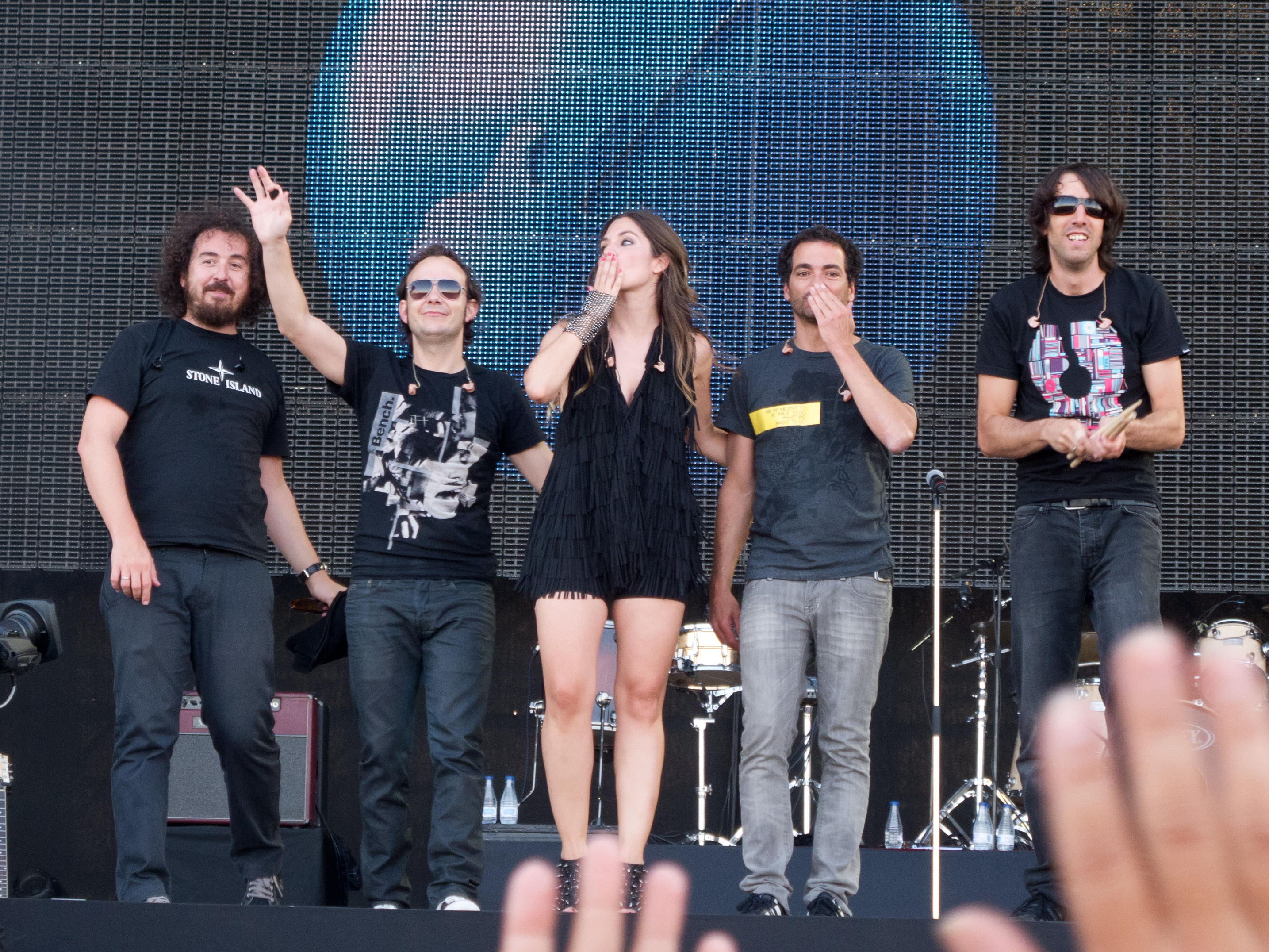 La oreja de Van Gogh in Rock in Rio Madrid 2012.